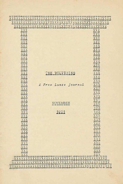 The Wolverine, Magazine cover, November 1921